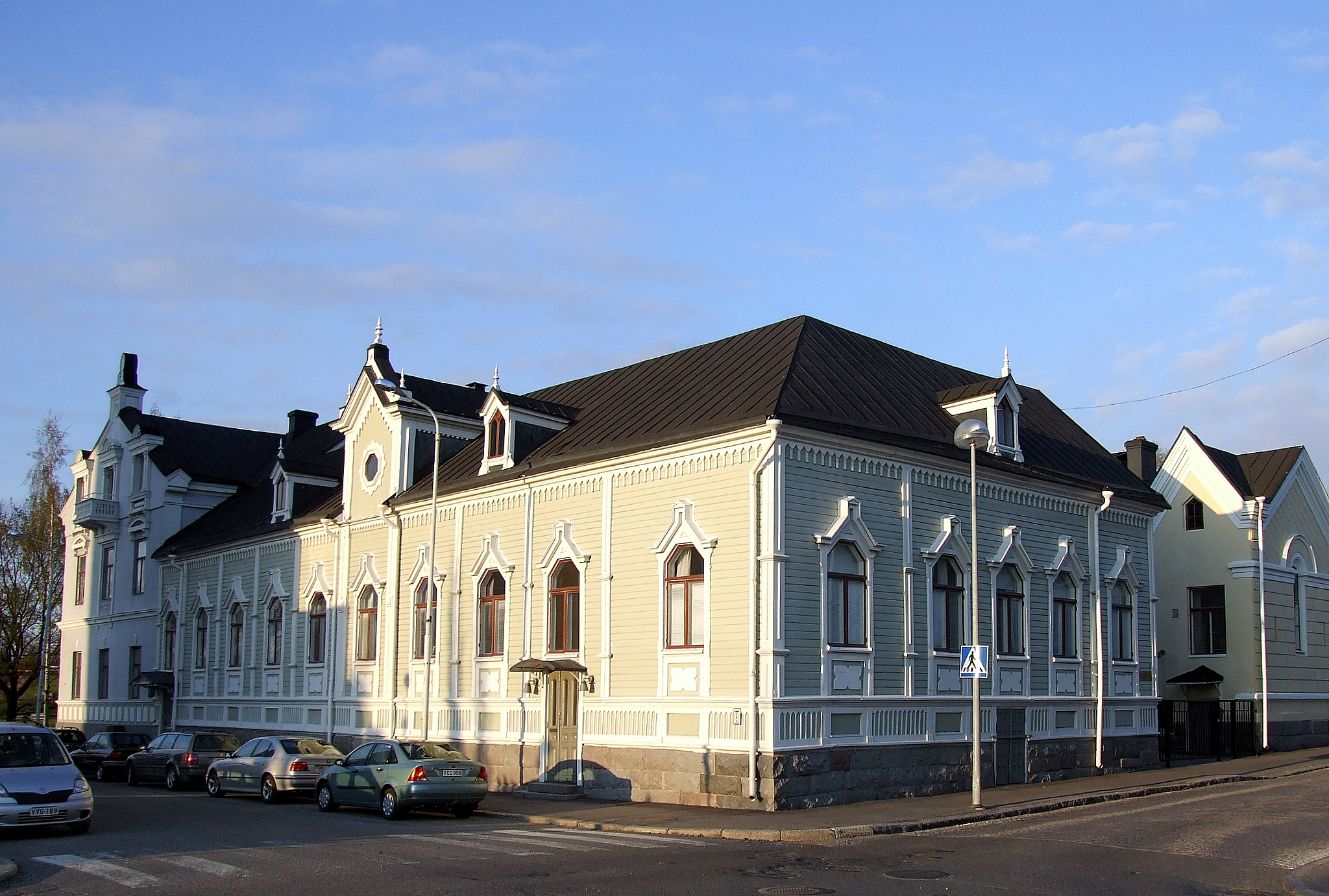 The cathedral chapter house in the Rantakatu street in Oulu, Finland. The building was designed by architect F.W. Lüchou and it was built in 1883.